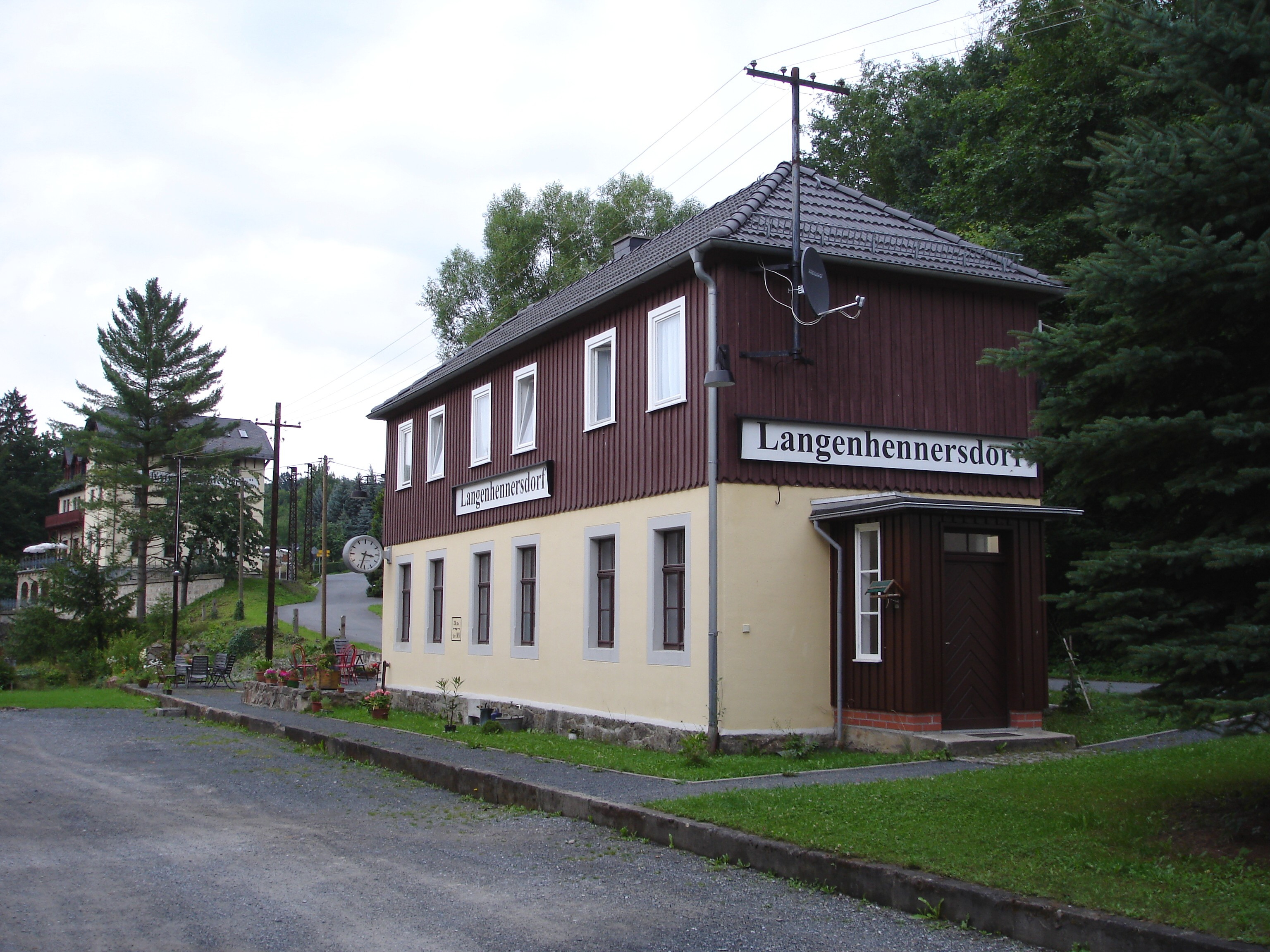 station Langenhennersorf, Gottleubatalbahn, Saxony, Germany